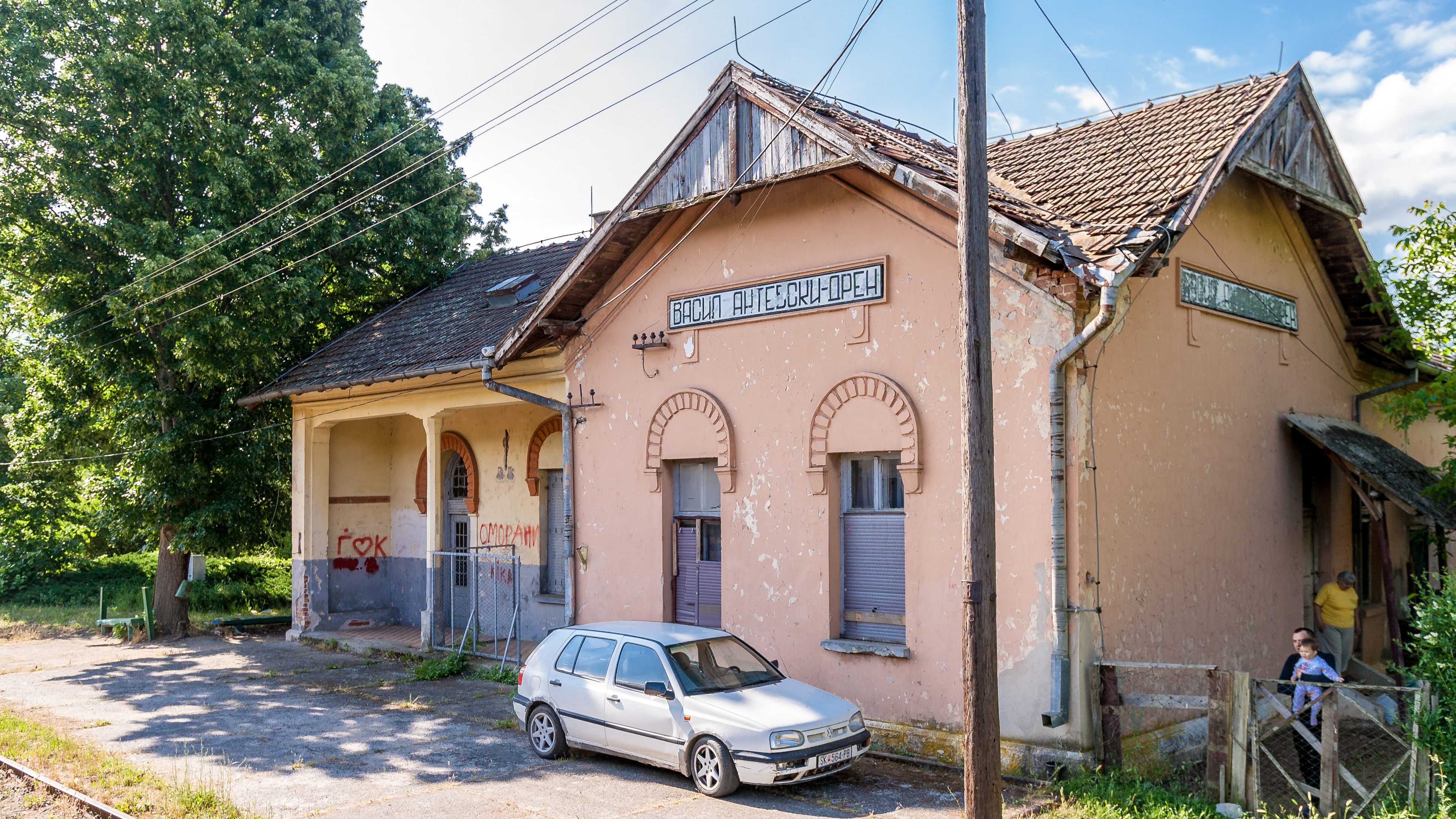 View of the Vasil Antevski-Dren train station